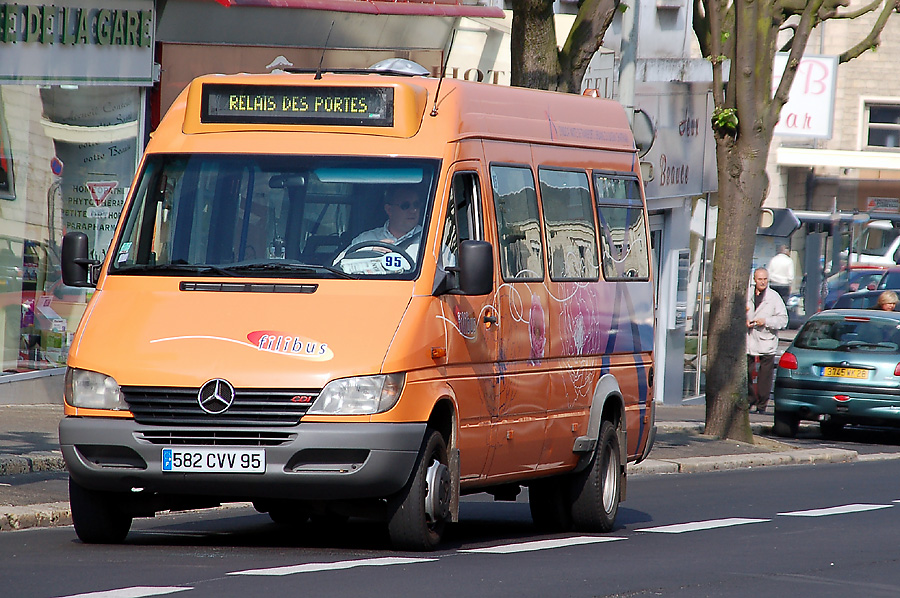 A Mercedes-Benz Sprinter van used as a bus in Chartres, France.